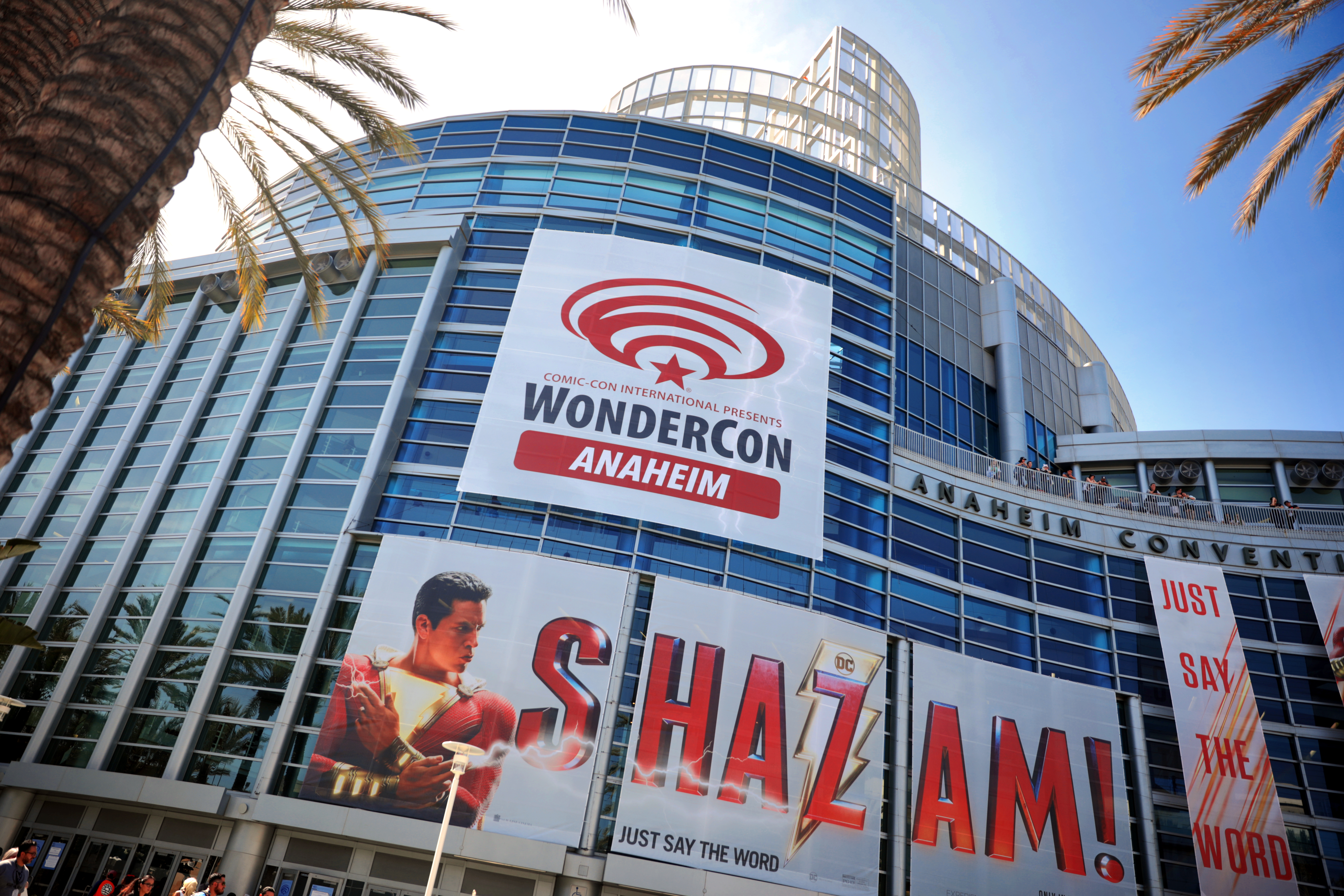 The 2019 WonderCon at the Anaheim Convention Center in Anaheim, California.